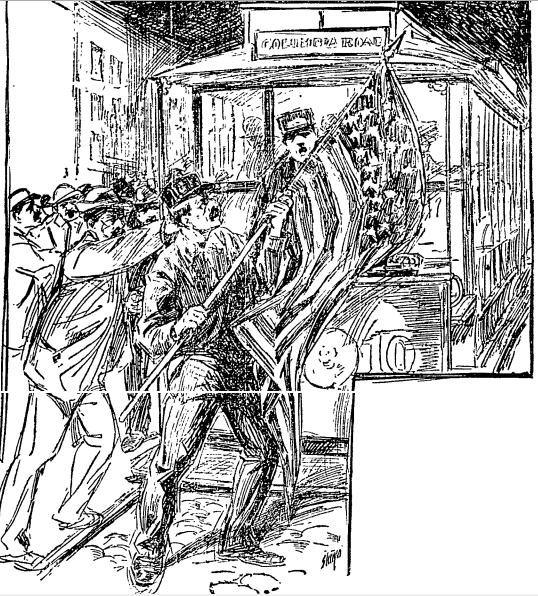 Boston Globe illustration of the "Federal Street Riot" of 1905.